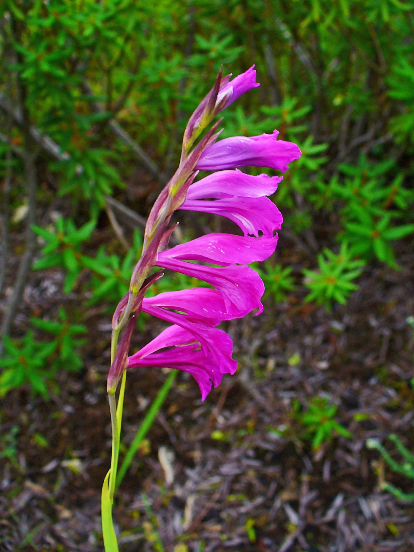 Gladiolus palustris, Iridaceae, Marsh Gladiolus, inflorescence; Botanical Garden KIT, Karlsruhe, Germany.